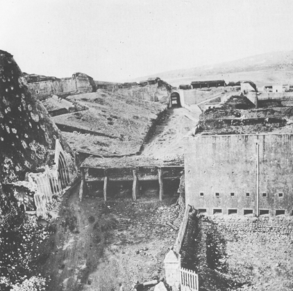 Gaeta fort - batteria cittadella